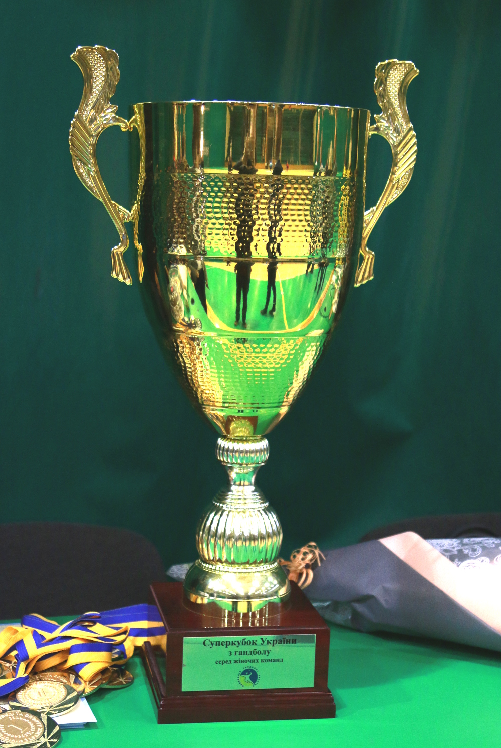 Ukrainian Women's Handball Supercup